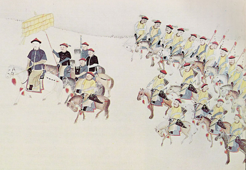 The Kangxi Emperor accompanied by his bodyguards